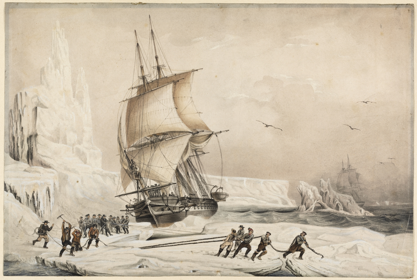 The Astrolabe and the Zelee caught in Antarctic ice, watercolour by A. Mayer. (1838), State Library of New South Wales V*/Ships/Astr/1